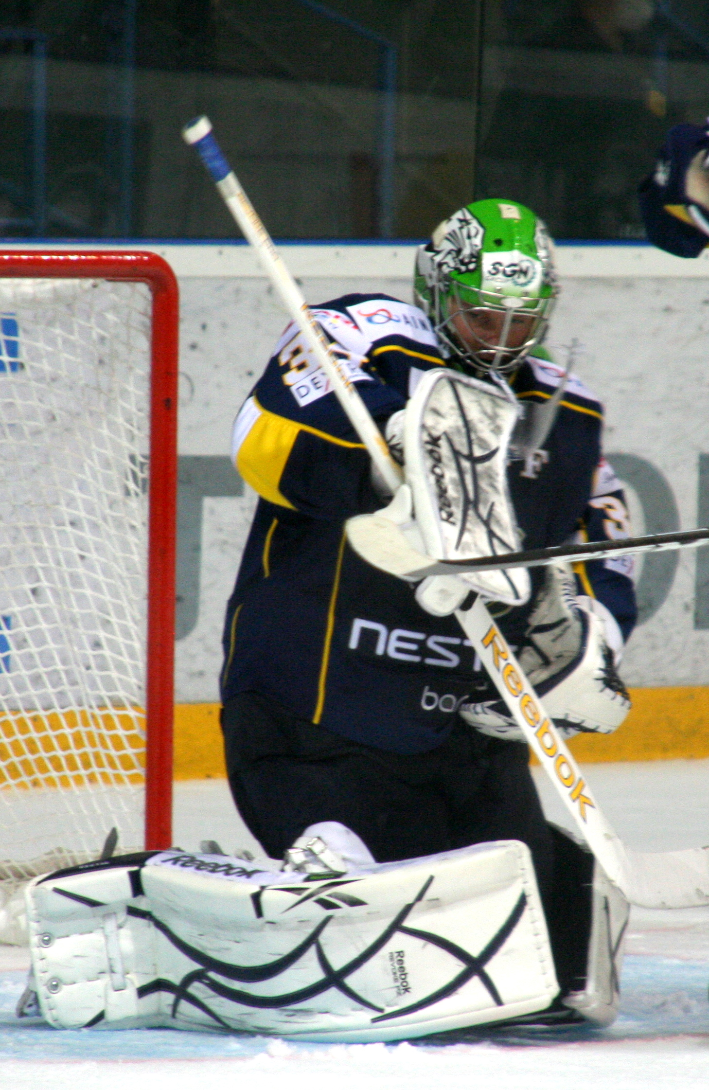 Ice Hockey Team Espoo Blues' Goaltender #34 Lars Volden